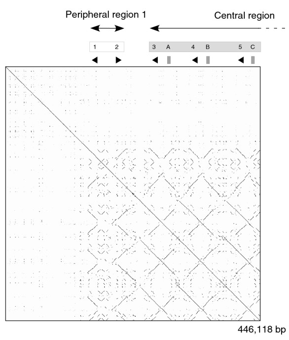 Self comparison of a part of the C57BL/6J mouse strain genome including a section of the major urinary protein (Mup) locus. The 446118 base pairs of DNA included is found on proximal contigs: AL181738 to CR847872. Genes are numbered as black arrowheads and pseudogenes are lettered as gray boxes. The dot-plot shows a patchwork of lines, demonstrating that the Mup locus consists of duplicated segments of DNA. This figure is slightly modified from Figure 3a from the source material